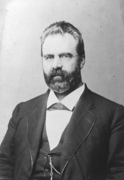 Cabinet card photo of William Steinway taken in Wiesbaden, Germany, by studio photographer Carl Borntraeger.